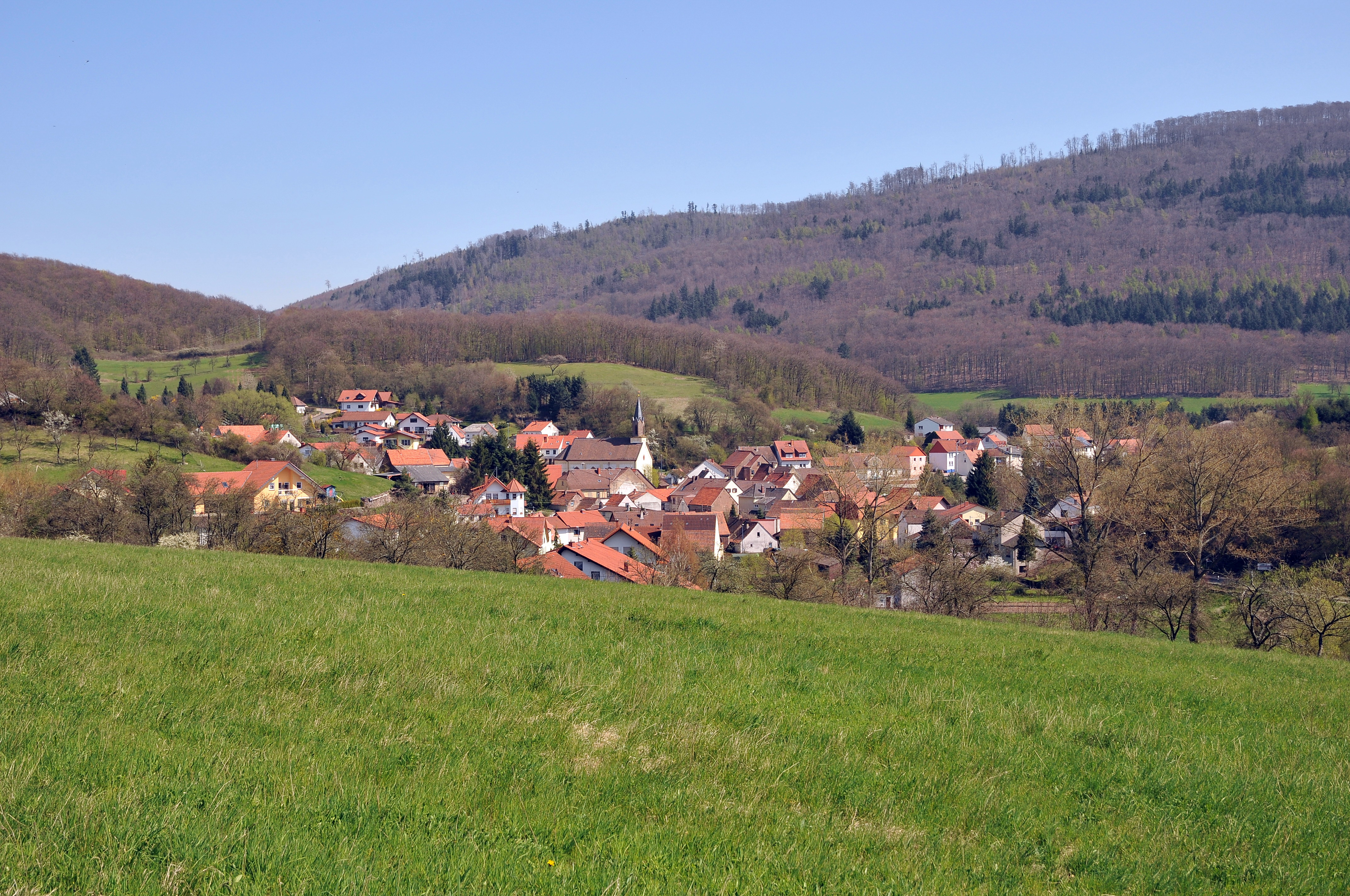 The Town "Marienthal" near Rockenhausen in Rhineland-Palatinate, Germany.